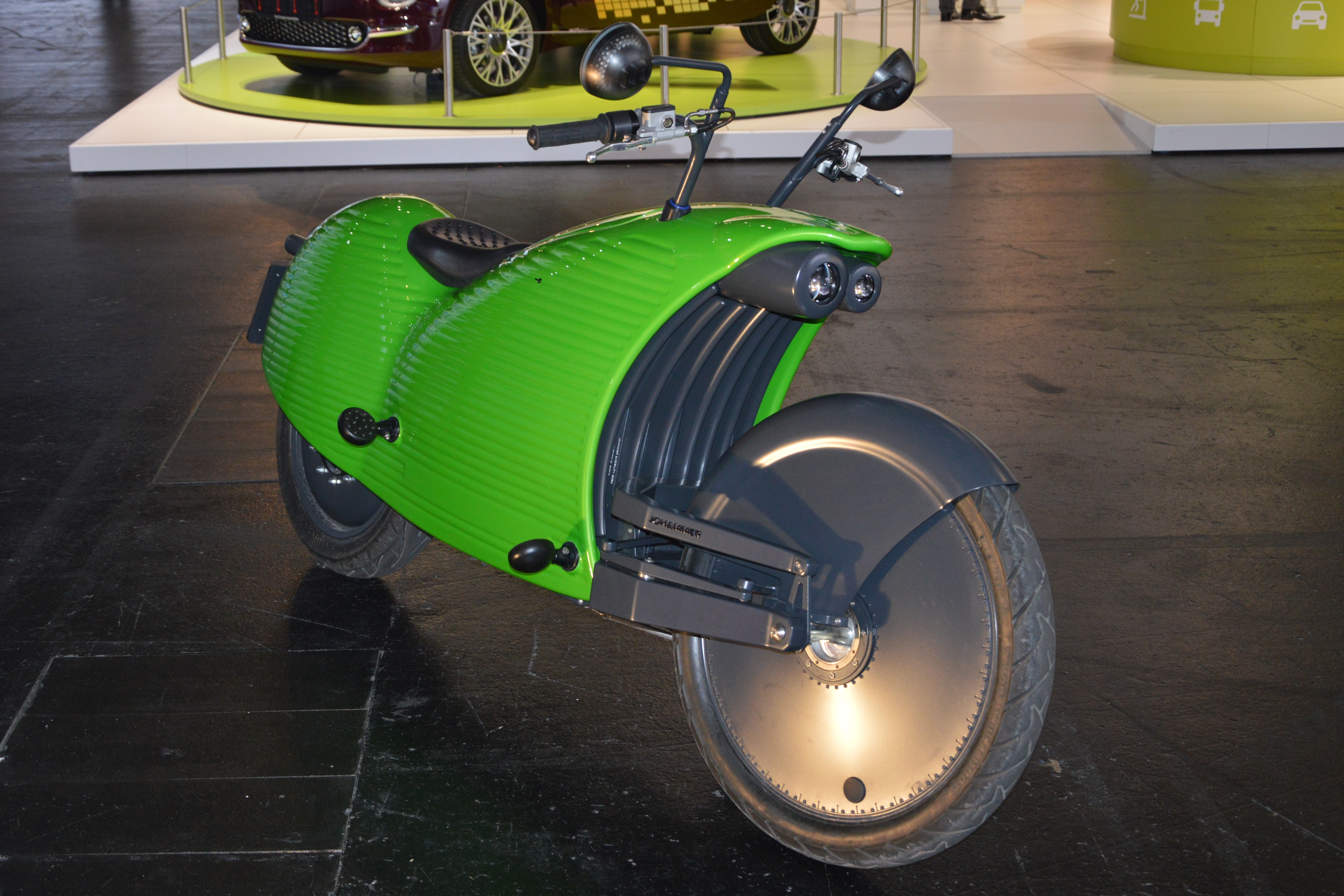 Electrically-powered Johammer J1. Photo taken at exhibition IAA 2015 in Frankfurt, Germany.